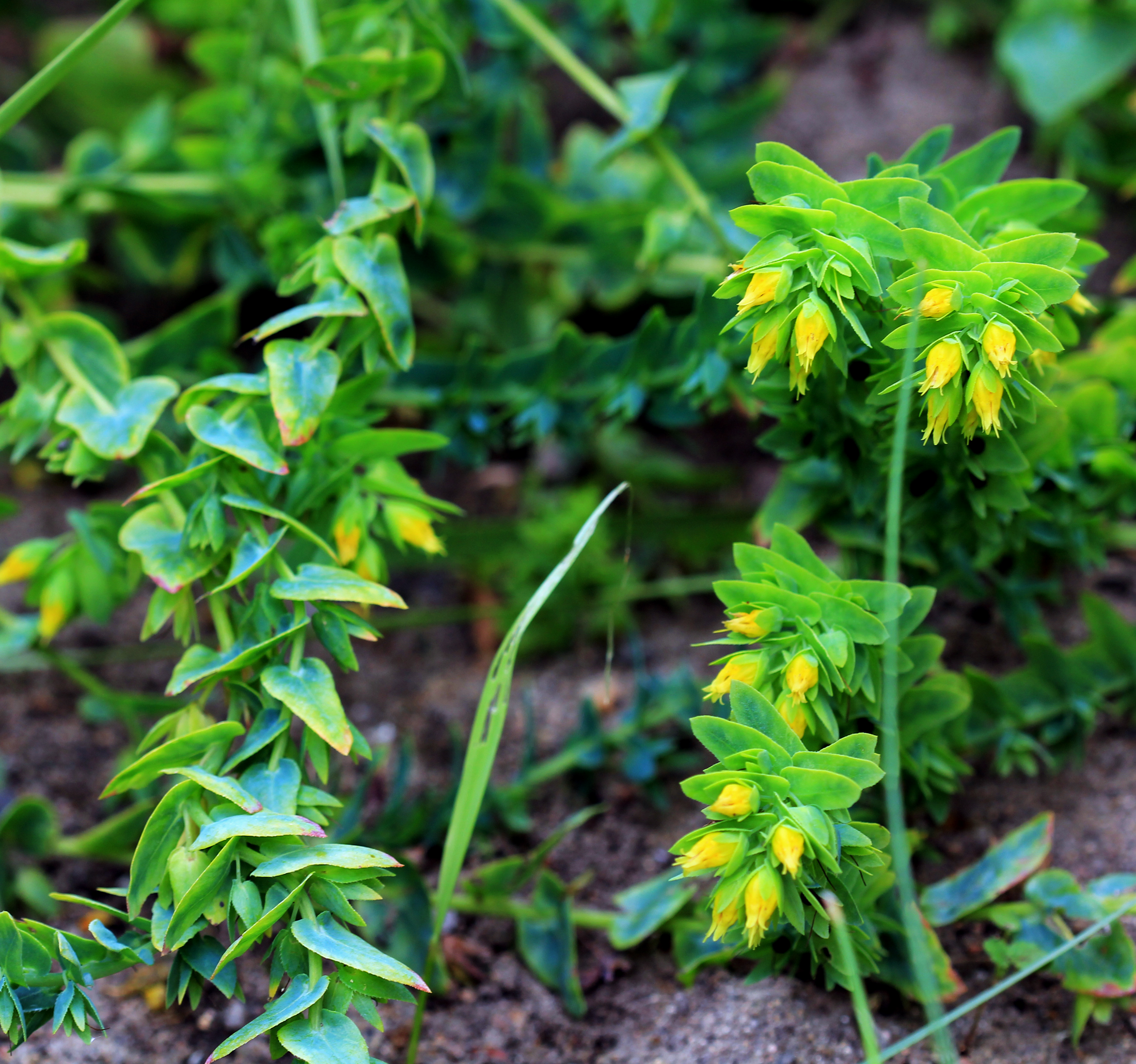 Plants Cerinthe minor from the Botanical Gardens of Charles University, Prague, Czech Republic